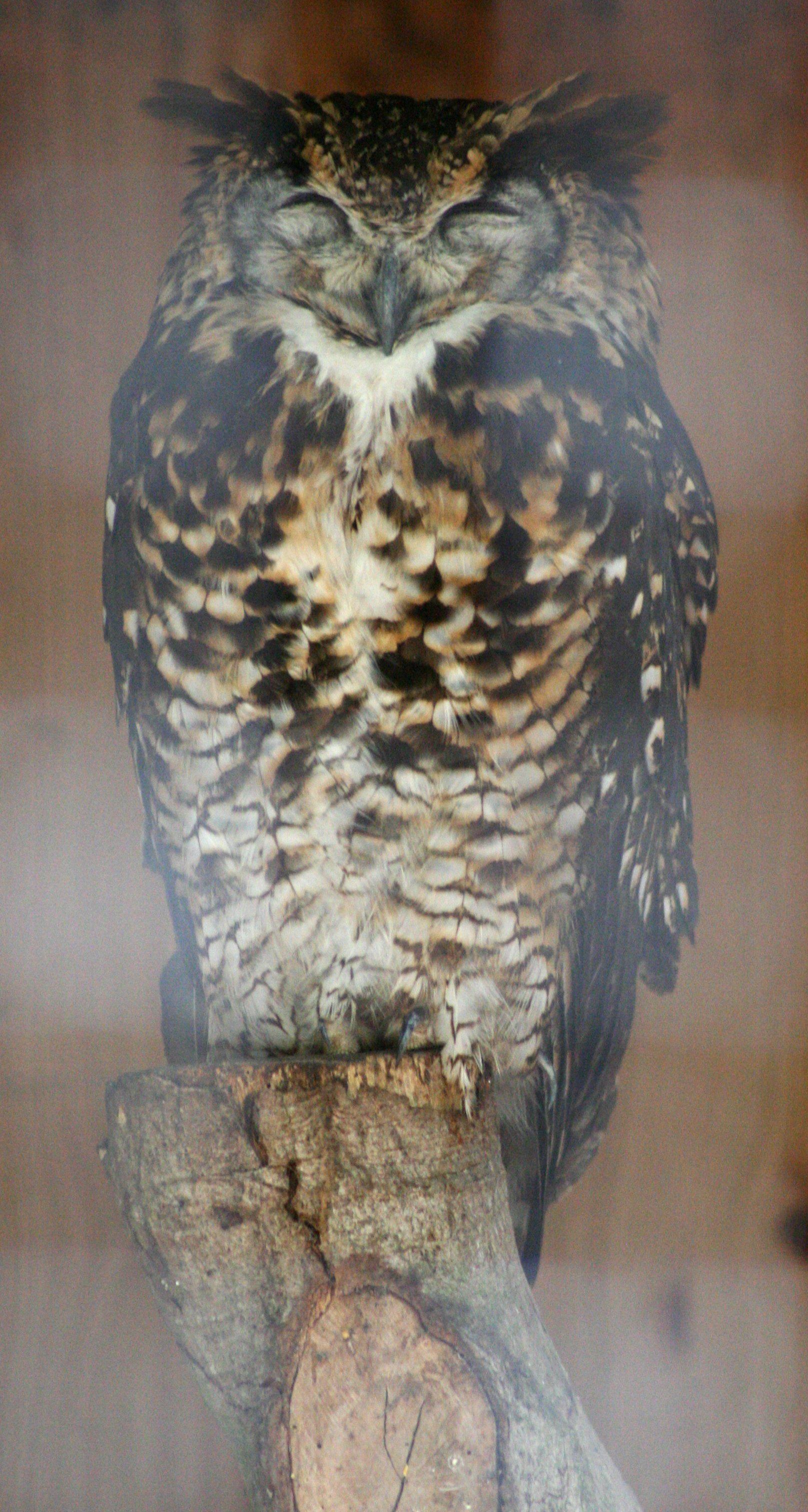 Mackinder's Eagle Owl (Bubo capensis mackinderi), at the New Forest Otter, Owl and Wildlife Park (Hampshire, England).